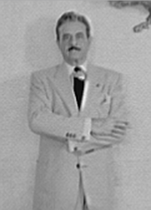 Cropped to show Loewy only. Enhanced with GIMP. Title: Raymond Loewy Associates, 488 Madison Ave., New York City. Mr. Loewy under eagle Creator(s): Gottscho-Schleisner, Inc., photographer Date Created/Published: 1950 Nov. 16. Medium: 1 negative : safety ; 4x5 in. Reproduction Number: LC-G613-T-58314-B (interpositive) Rights Advisory: No known restrictions on publication. Call Number: LC-G613- 58314-B [P&P] Repository: Library of Congress Prints and Photographs Division Washington, D.C. 20540 USA Subjects: Offices. United States--New York (State)--New York. Format: Acetate negatives. Portrait photographs. Collections: Gottscho-Schleisner Collection Part of: Gottscho-Schleisner Collection (Library of Congress) Bookmark This Record